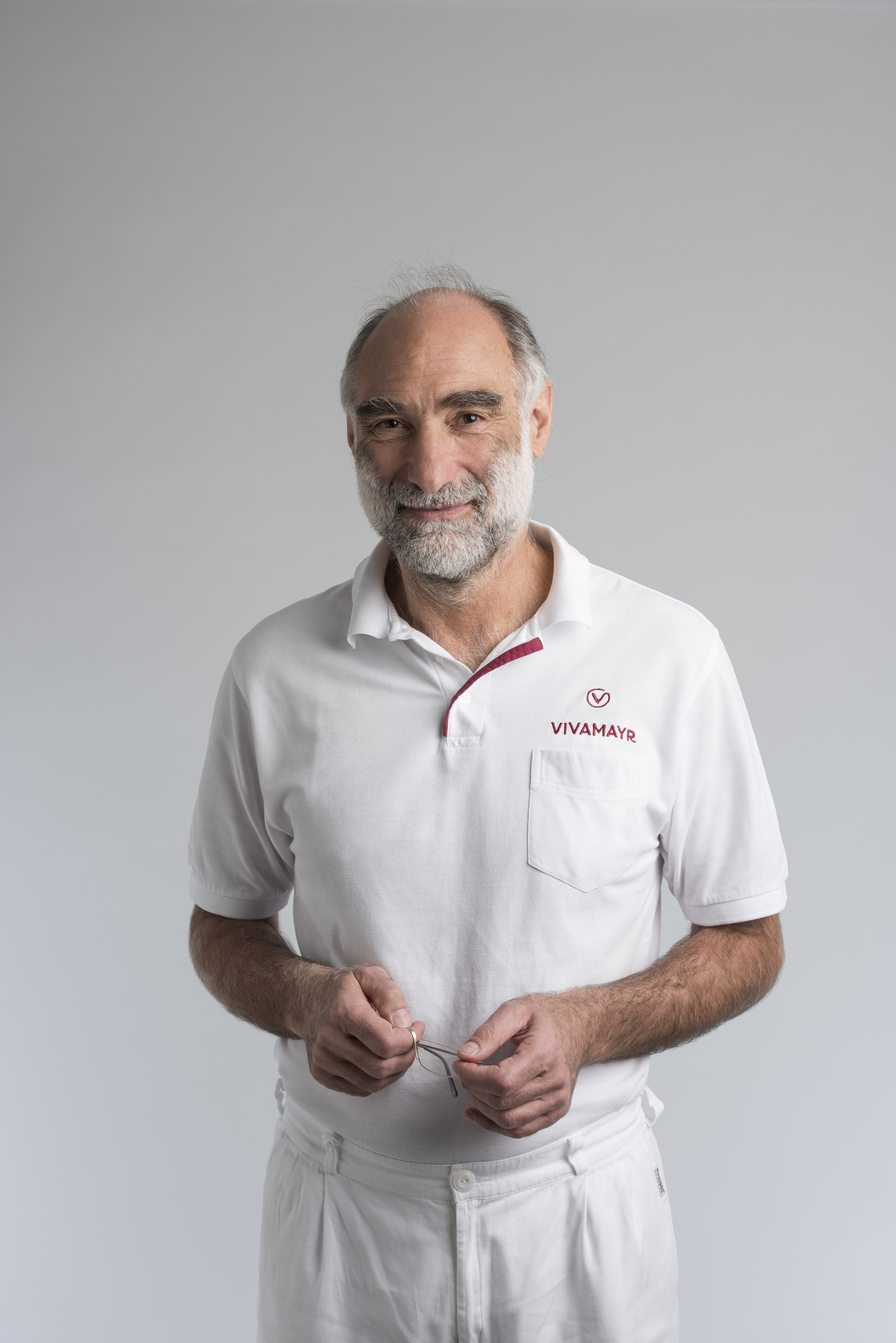 Dr. Harald Stossier Portrait Photo